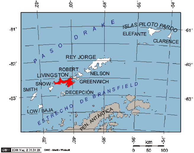 Location map of Livingston Island in the South Shetland Islands